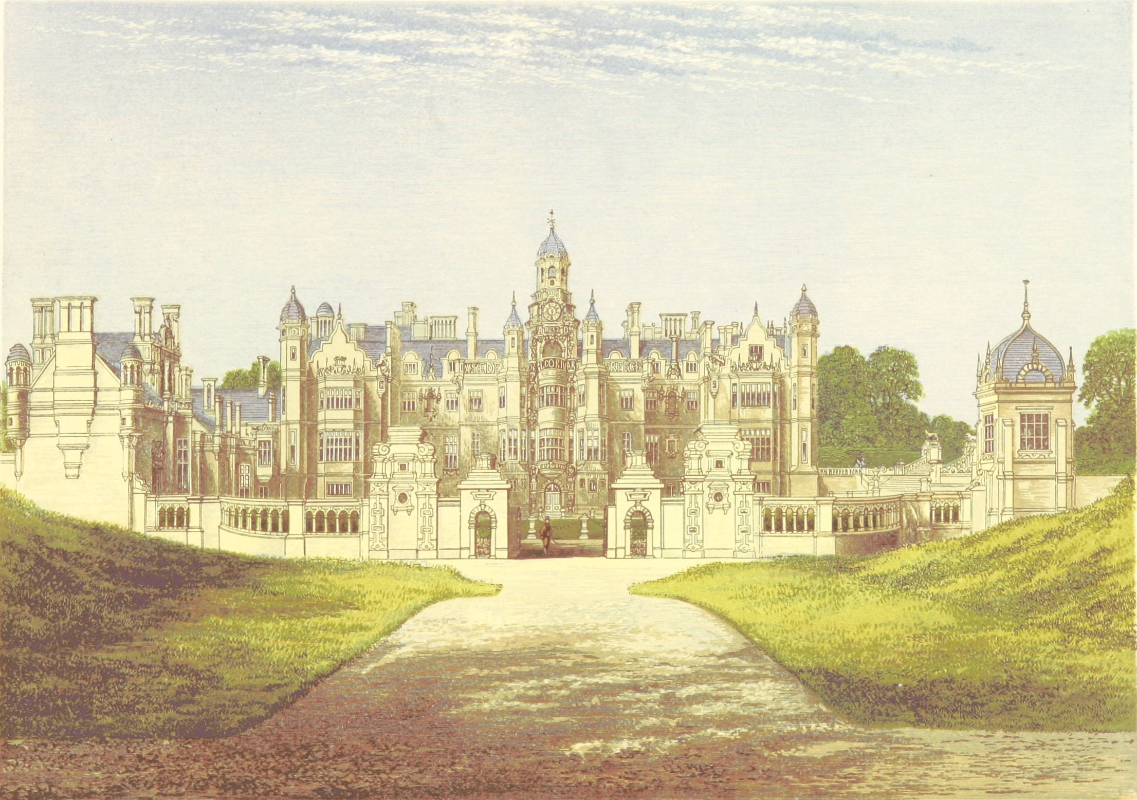 Harlaxton Manor. taken from page 228 of The County Seats of the Noblemen and Gentlemen of Great Britain and Ireland Vol. 1, by Francis Orpen Morris (British Library HMNTS 10360.k.20)